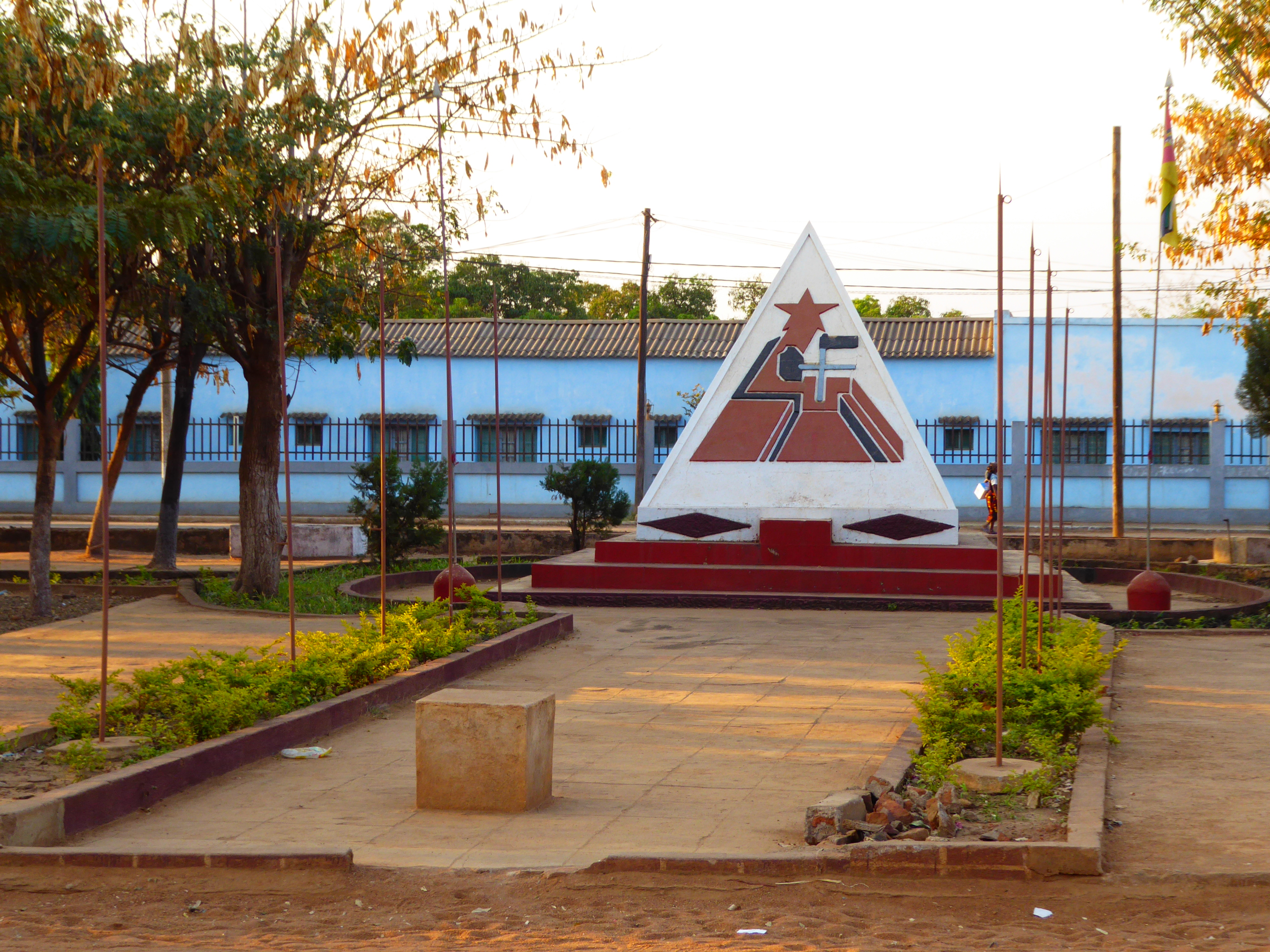 Monument for the Mozambican Heroes in Cuamba, Niassa province, Mozambique